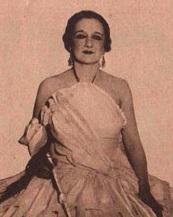 Enriqueta Mesa- actriz argentina